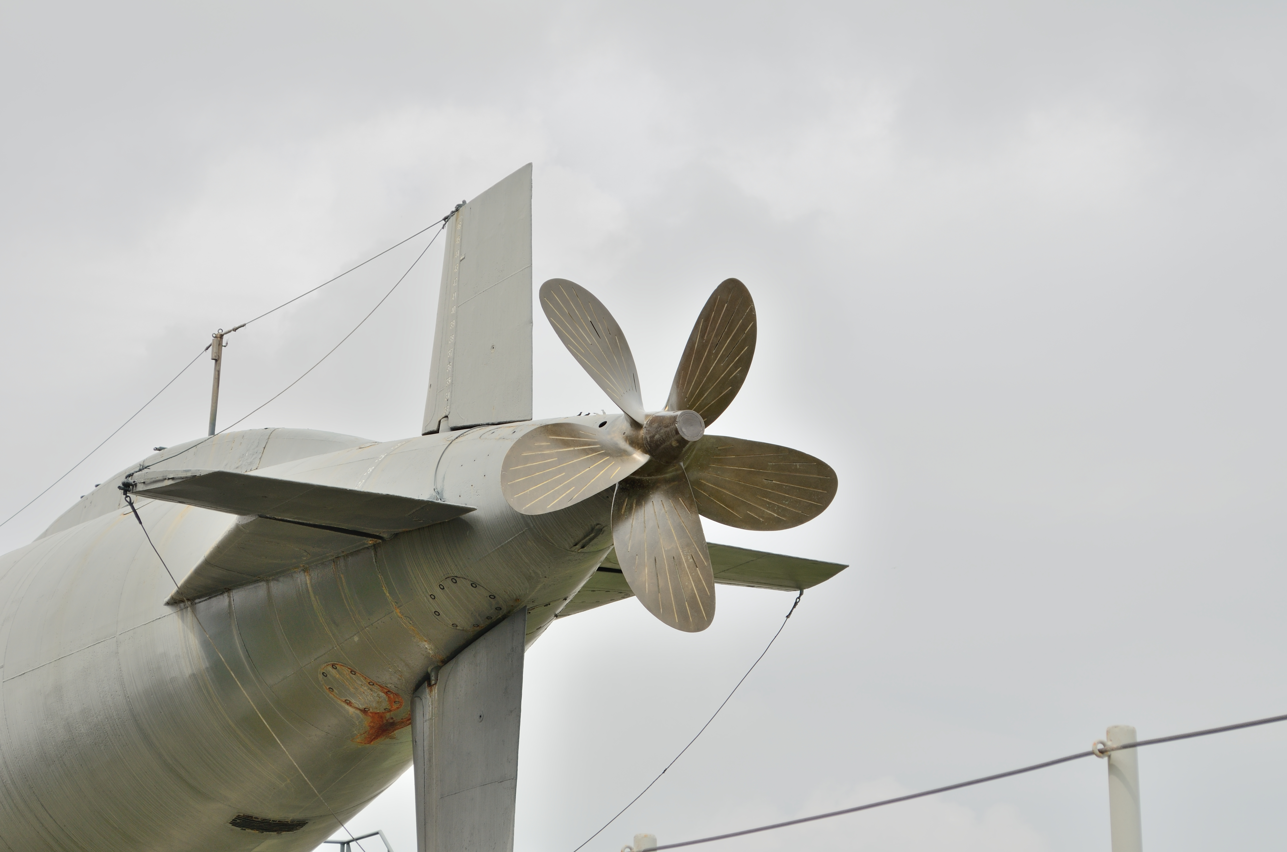 Enrico Dandolo S 513 at the Venetian Arsenal